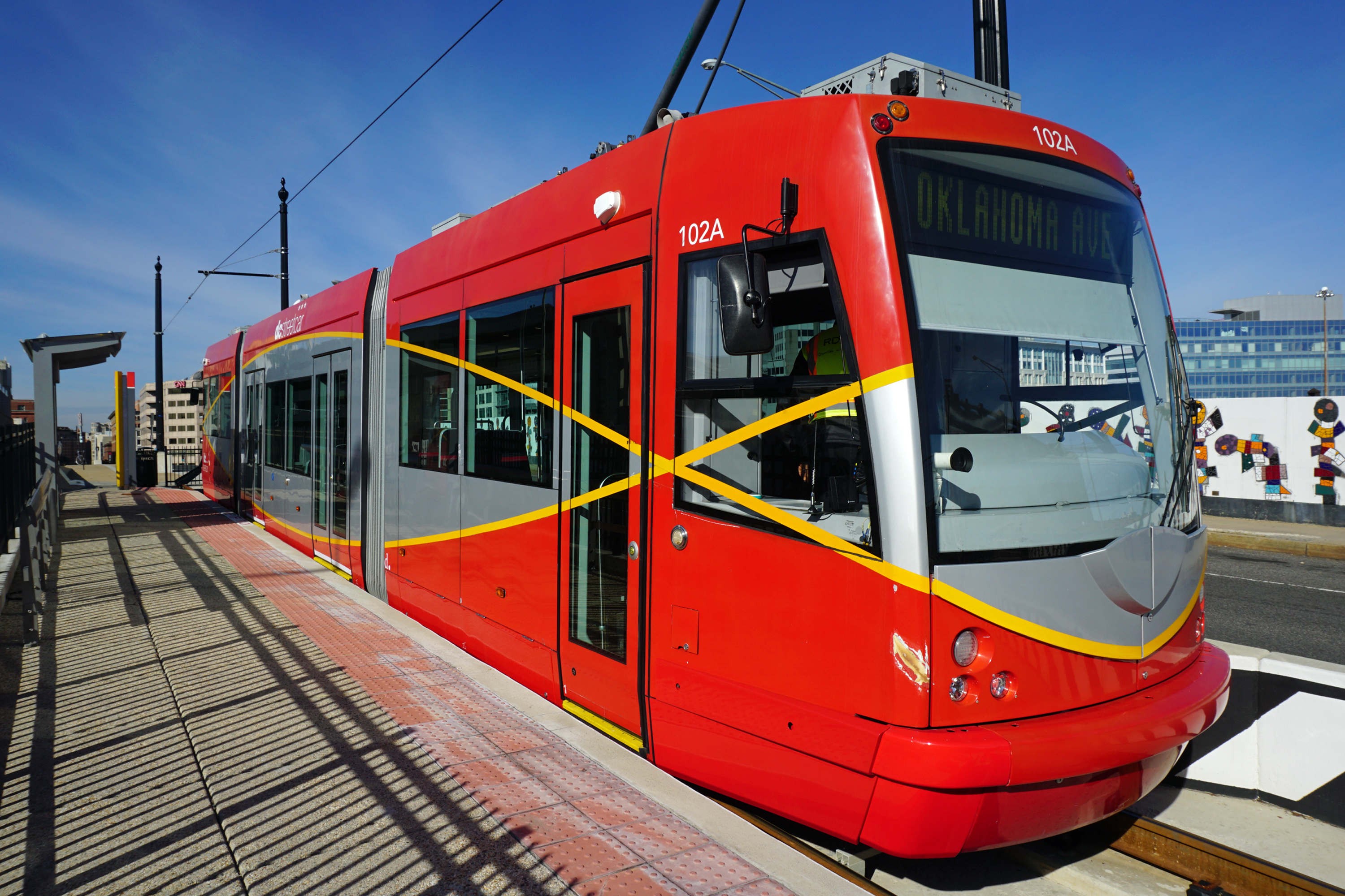 DC Streetcar on H Street NE, Washington, D.C. The trams are running as part of a testing phase.